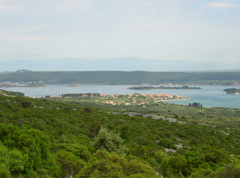 Pasman Island in Croatia.